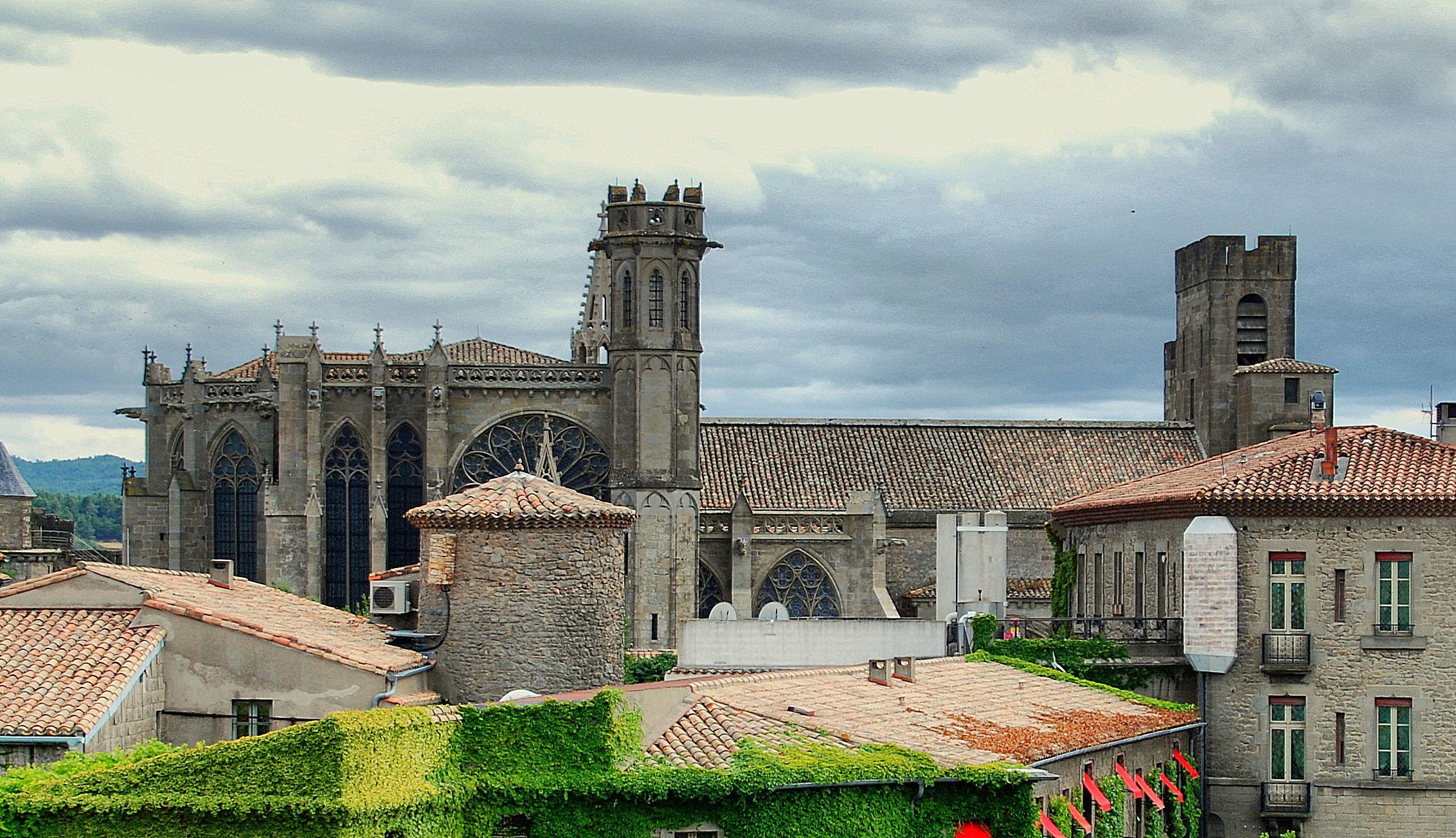 Carcassonne, France: view of the Basilica of St. Nazaire and St. Celse from the count's castle